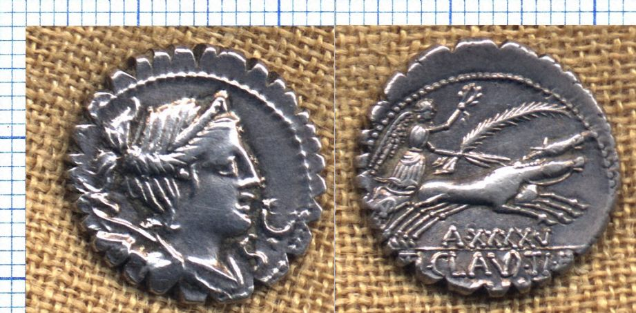 Denarius Serratus Diana left Victory on biga right, A and number (XXXXV) below; TI. CLAVD TI. F / [AP. N] in exergue